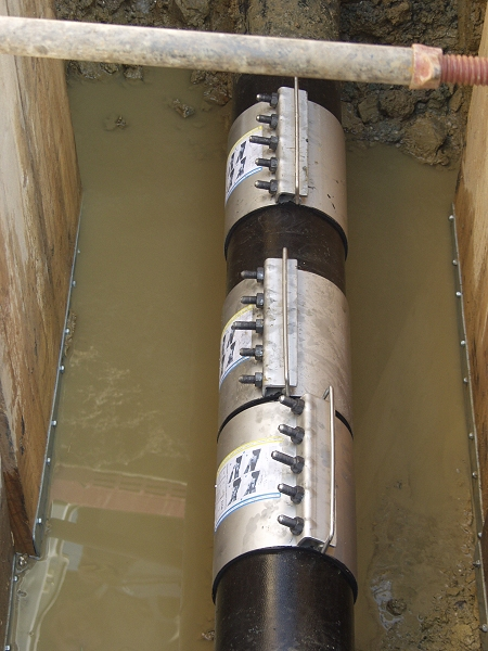 Pipe burst